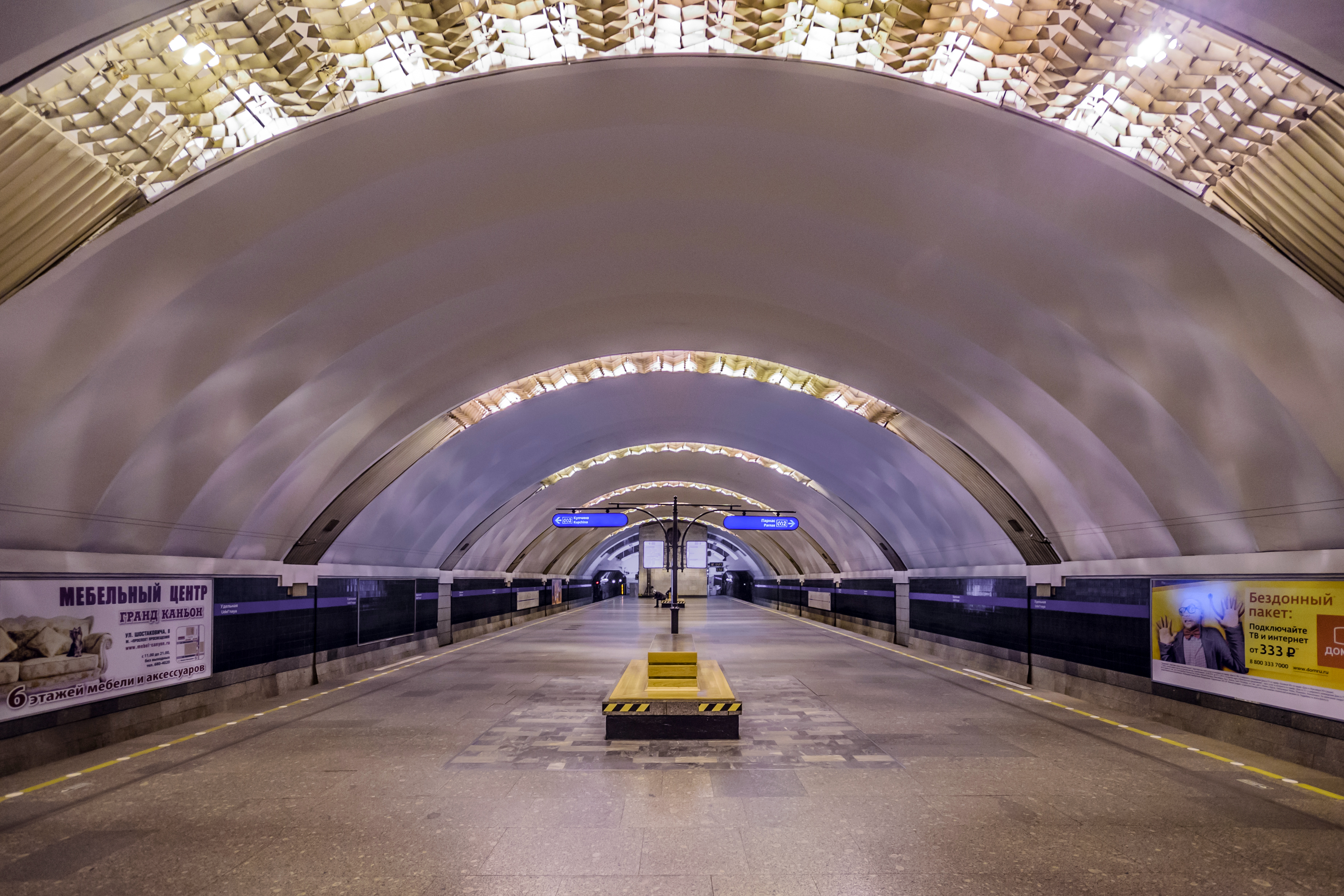 Udelnaya subway station in Saint Petersburg